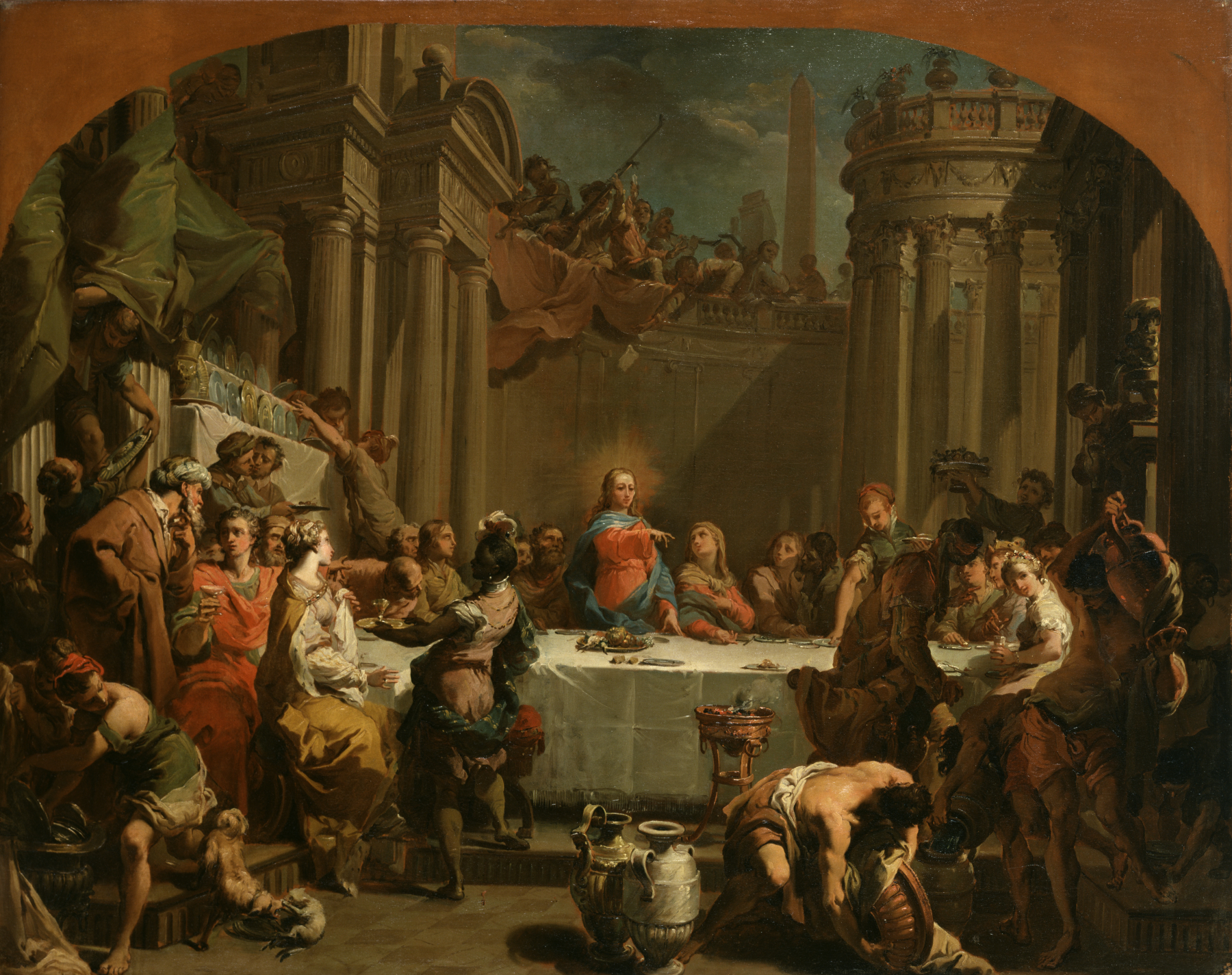 This scene depicts the first miracle of Christ, related in the Gospel of John. At a wedding, after all the wine had been drunk, Jesus ordered six jars to be filled with water, which he then turned into wine. Here, Jesus points to the jars while his mother gazes reverently at him. Gandolfi introduces a variety of figures, including both an oriental man wearing a turban and an African servant, and anecdotal details (the fighting animals), resulting in a liveliness of pictorial expression comparable to Tiepolo. This work was the "modello" (preparatory version) for an enormous canvas painted for the eating hall in the convent of San Salvatore in Bologna and now in the National Museum there.